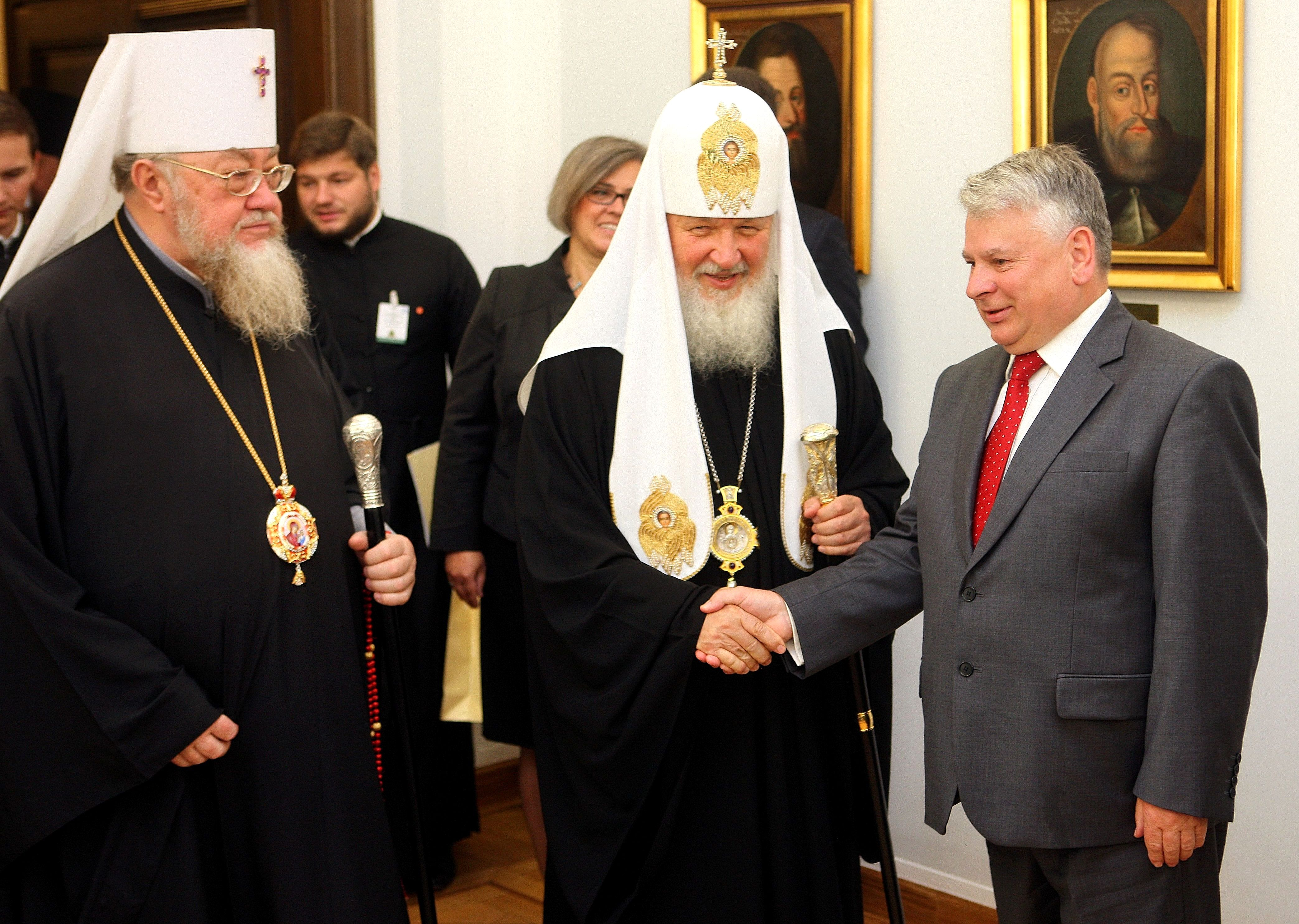 Metropolitan Sawa, Patriarch Kirill I and Marshal of the Senate Bogdan Borusewicz in the Polish Senate